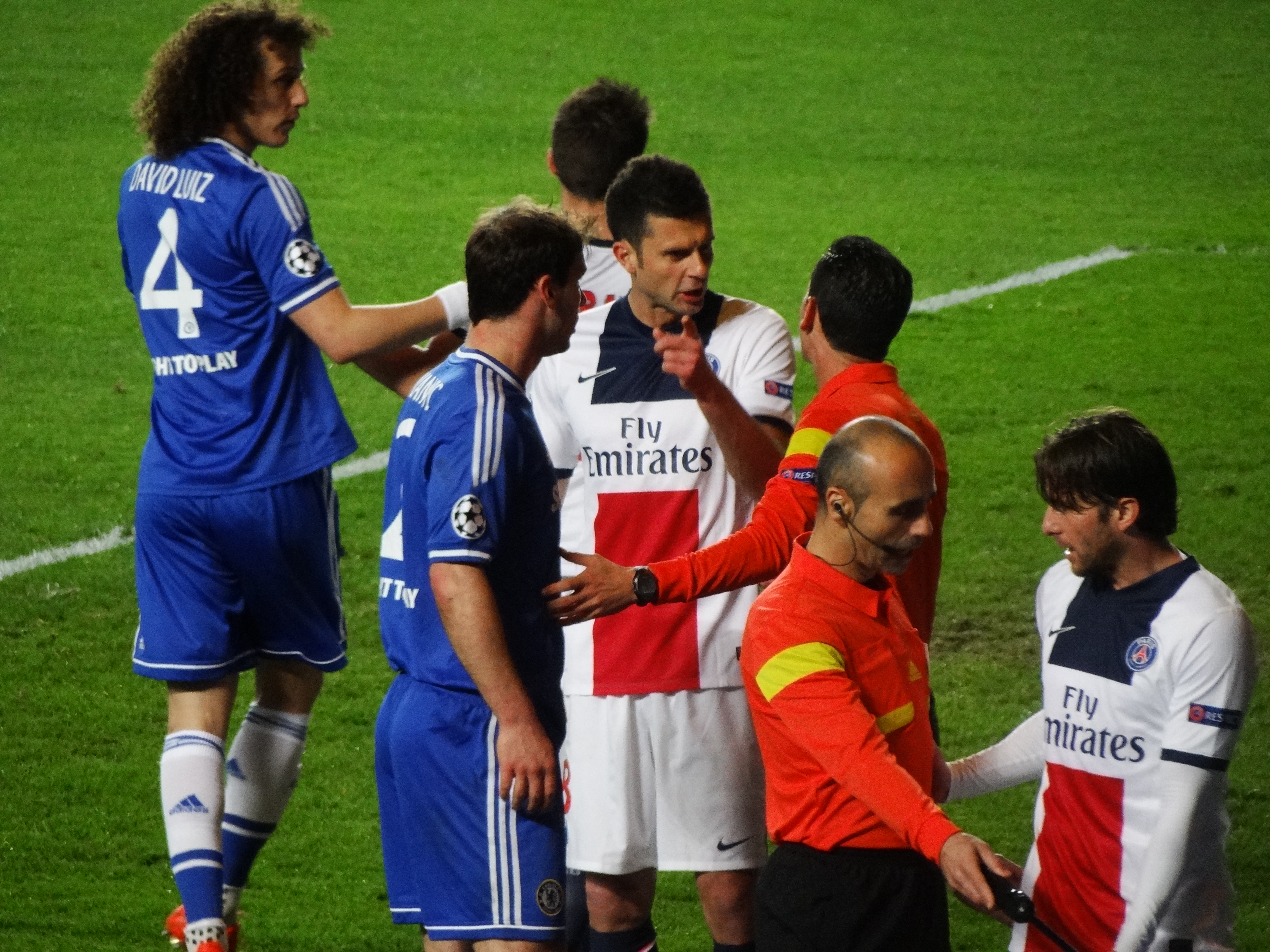 Chelsea FC v Paris Saint-Germain, 8 April 2014, Stamford Bridge, London.